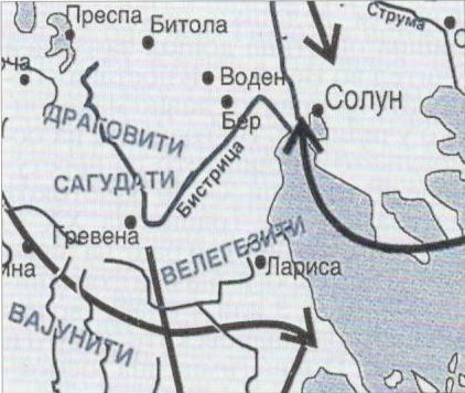 Маp of the region of settlement of the Macedonian slavic tribe Velegezites